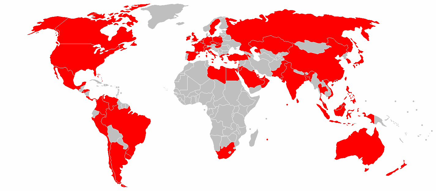 HSBC global locations